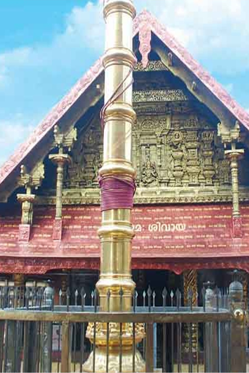 Thirunakkara Siva Temple